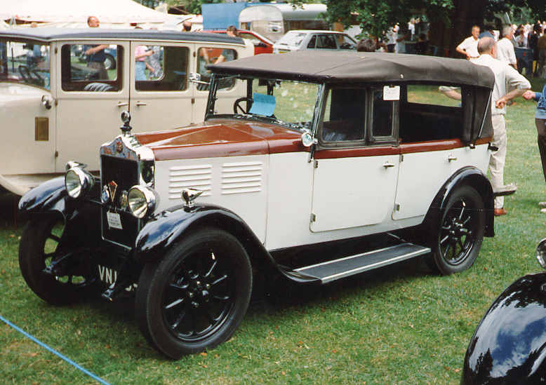 1927 Standard Nine Selby Tourer photographed by Malcolm Asquith